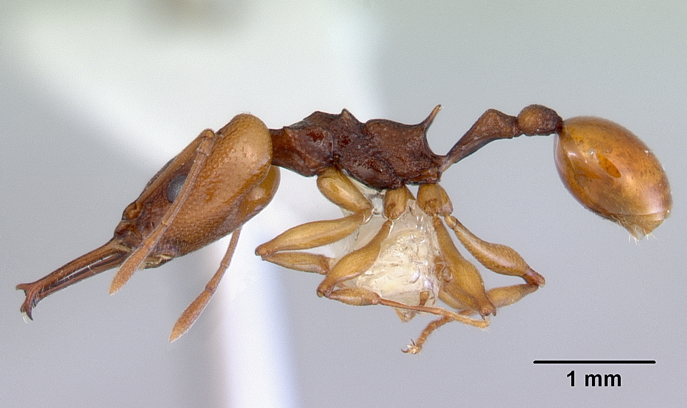 Profile view of ant Orectognathus antennatus specimen casent0172360.